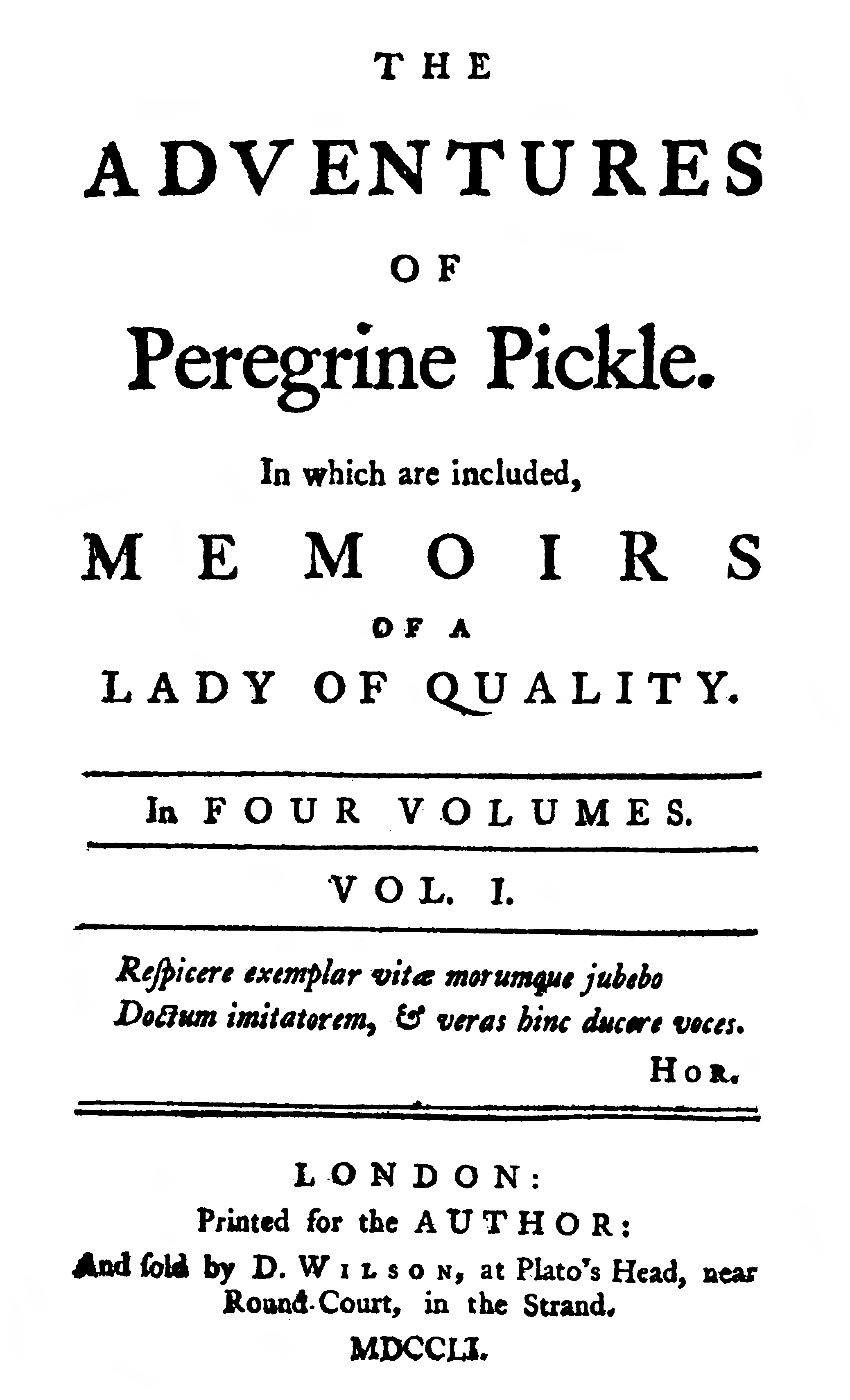 1st edition title page